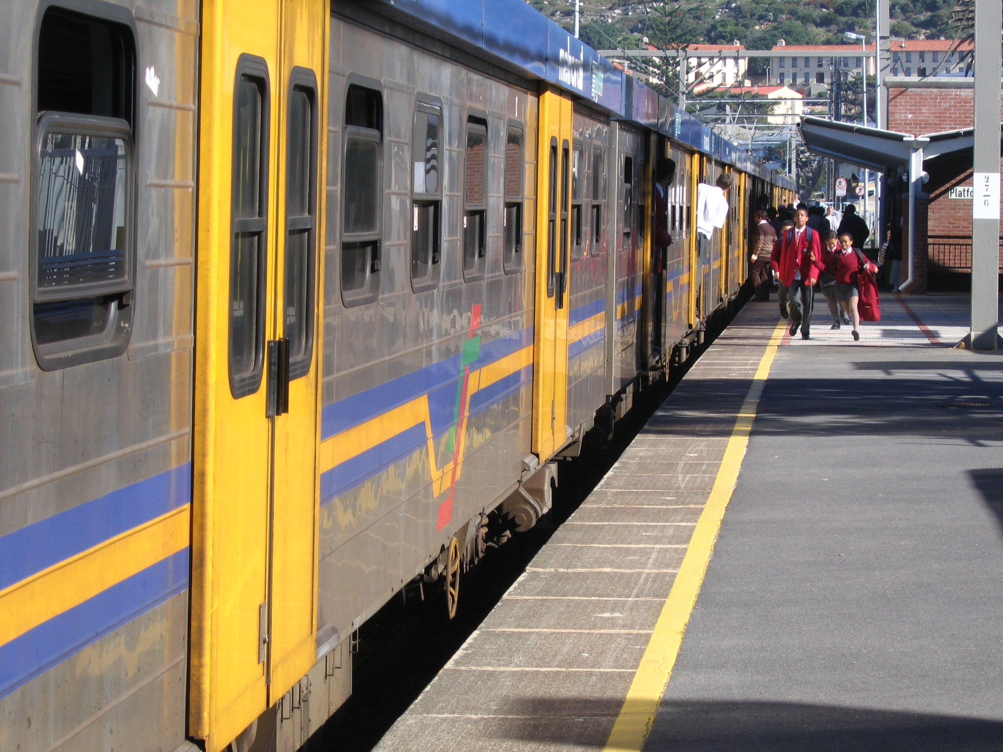 Kalk Bay station, Cape Town, South Africa. A regular commuter train has just arrived, with school children shown running to catch the train.